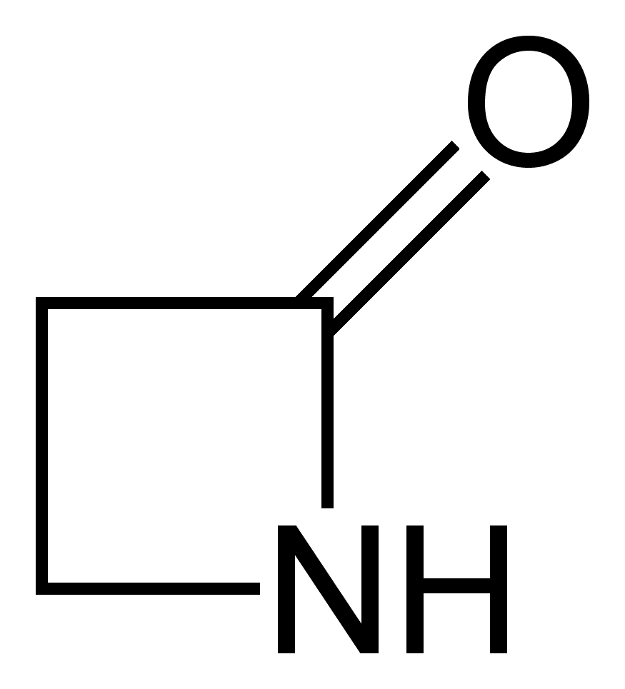 Skeletal formula of azetidin-2-one